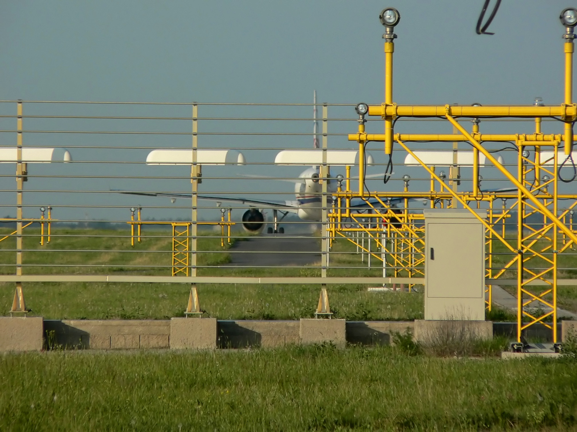 CSA's Airbus A320 is cleared for takeoff. Localizer antennae and lighting system is visible too.